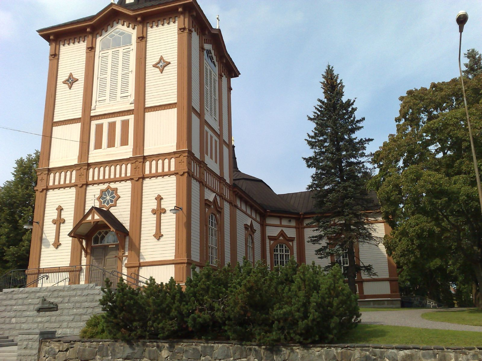 The old wooden Toijala church, Finland